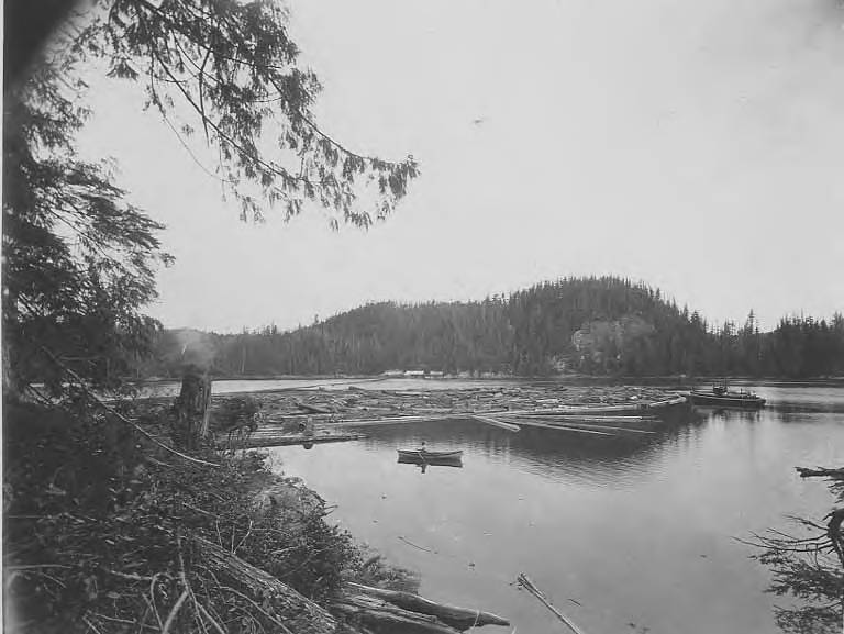 Shows Camp "2" on floats in the background; and with the Kalmor II launch and a man in a canoe near the boom (W493). PH Coll 1395.56 Subjects (LCTGM): Lumber camps--British Columbia--Broughton Island Subjects (LCSH): Booms (Log transportation)--British Columbia--Broughton Island; Clark & Lyford, Ltd.